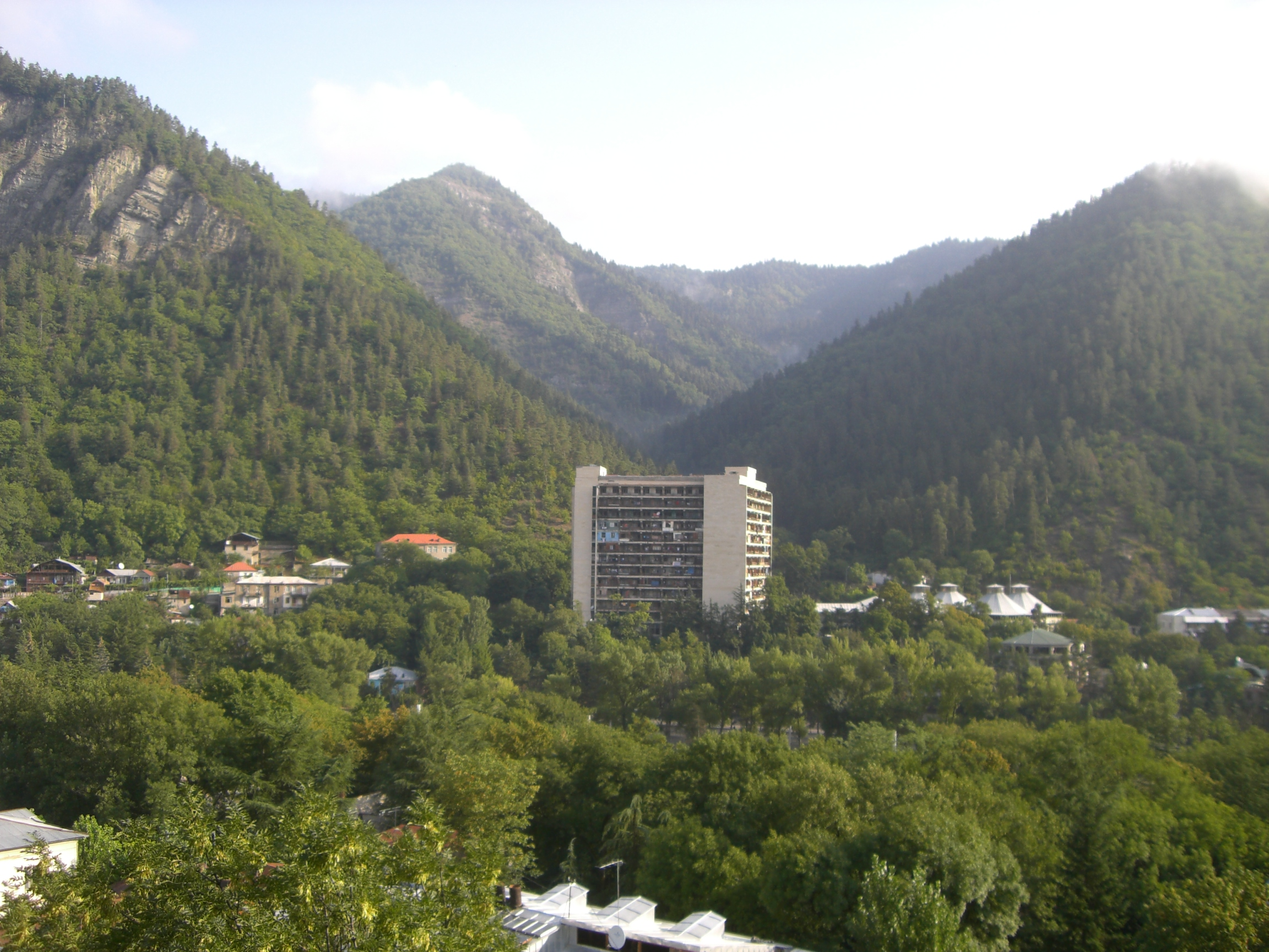 Views from the hotel 'Tbilisi'